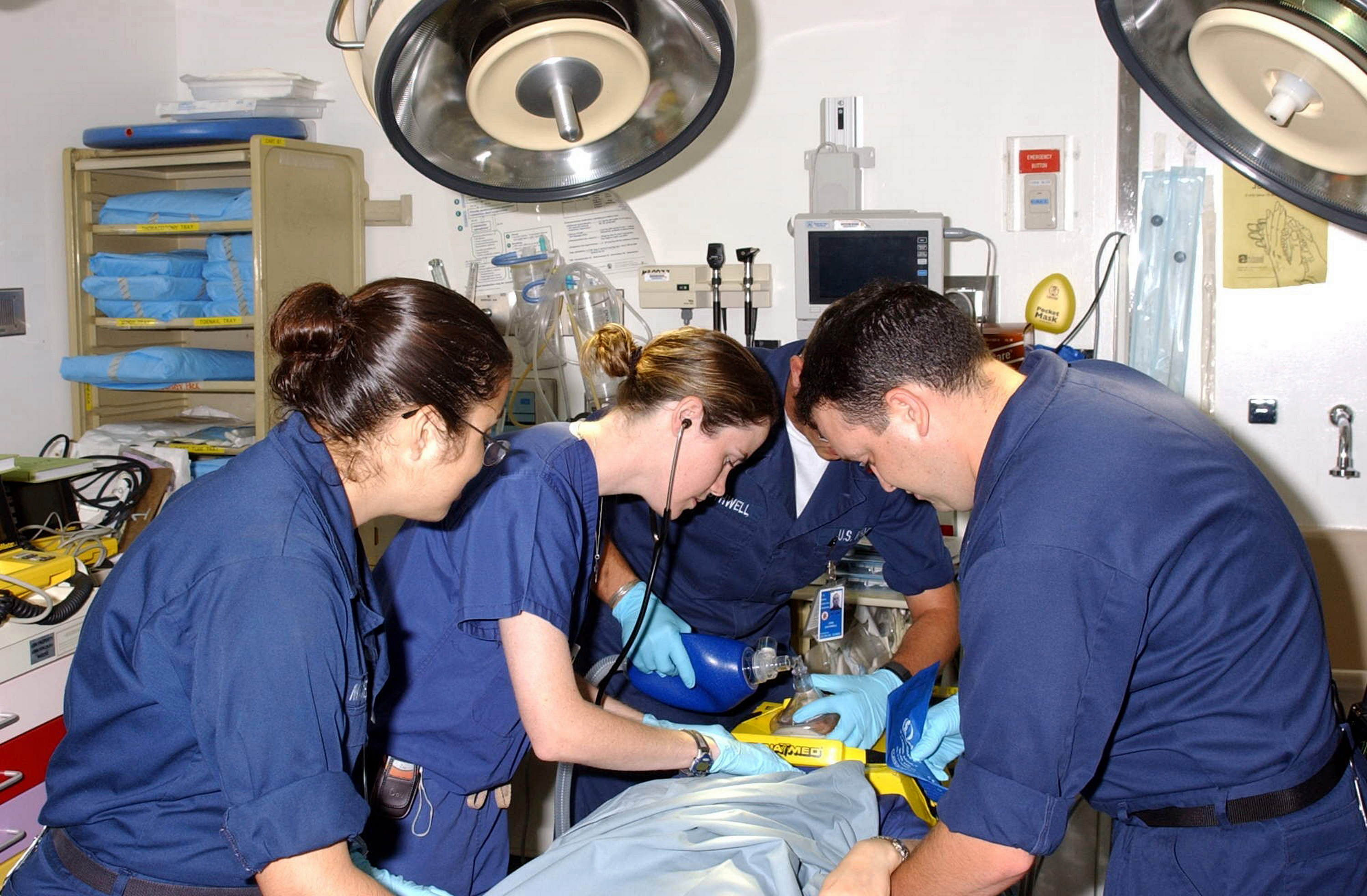 Yokosuka, Japan (Oct. 29, 2002) -- Navy Lt. Jacqueline Jones (center), an Emergency Room General Medical Officer, provides trauma training to a team of Emergency Medical Technicians at U. S. Naval Hospital, Yokosuka, Japan. Dr. Jones was recently credited with saving the life of a local off-base resident who nearly drowned during a jet ski accident. Jones provided lifesaving CPR until local paramedics arrived on the scene. U.S. Navy photo by Tom Watanabe. (RELEASED)